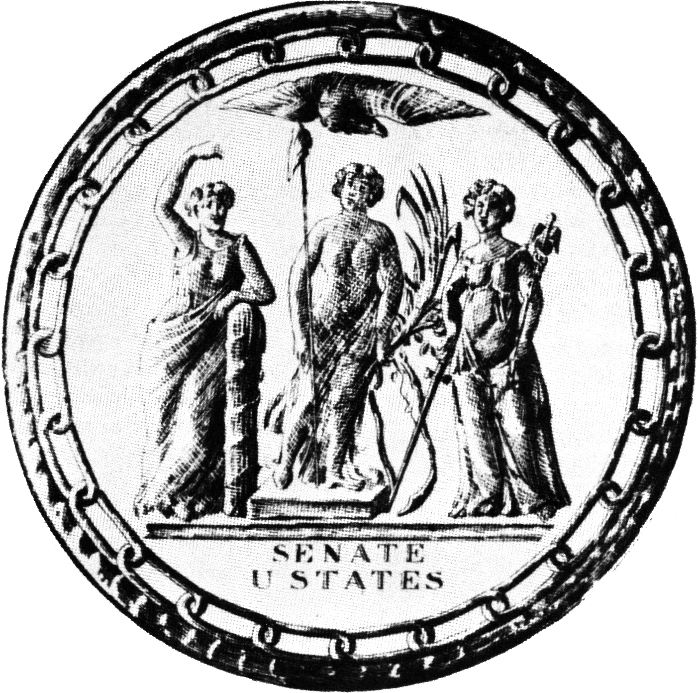 An engraving of the 1831 Seal of the United States Senate made in the March 26, 1885 edition of The Daily Graphic, a New York newspaper. By this time, several elements of the seal had evidently worn, so they were not present in this engraving. The figure on the left is supposed to be holding scales of justice over her head, the central figure is supposed to be holding a scroll with "Constitution" written on it, and the pedestal she is standing on is supposed to say "4 July 1776".